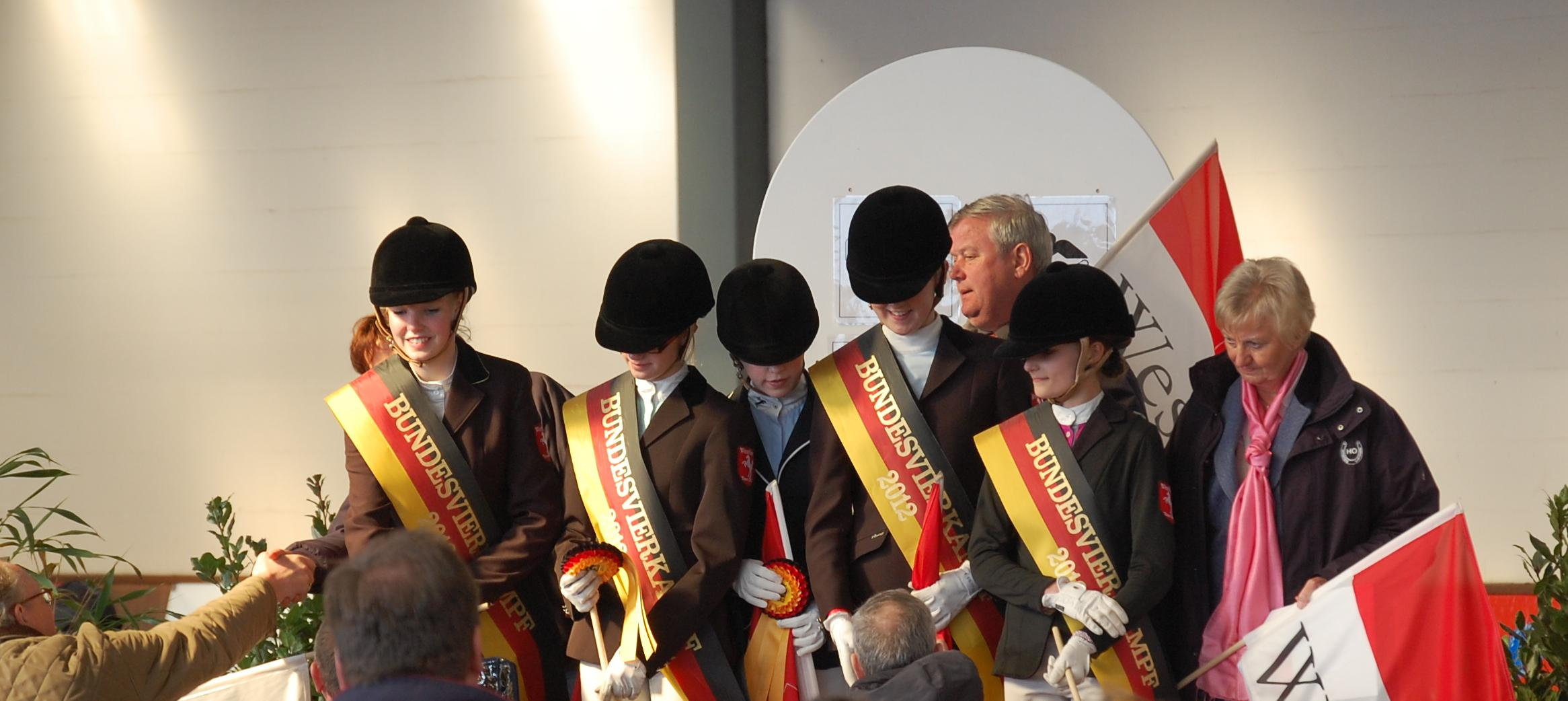 Bundesvierkampf 2012, Norderstedt-Glashütte: team prize giving ceremony "Vierkampf" is a team competition, all competitors have to start in the disciplines swimming (50 meter), dressage riding, running (3 km) and show jumping. In the "Bundesvierkampf" compete teams from the States of Germany. In the show jumping competition two riders of each team has to ride horses from another team.